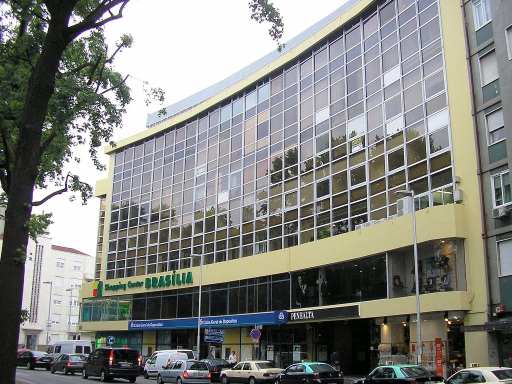 Shopping Center Brasilia (1976) in Porto city, Portugal.